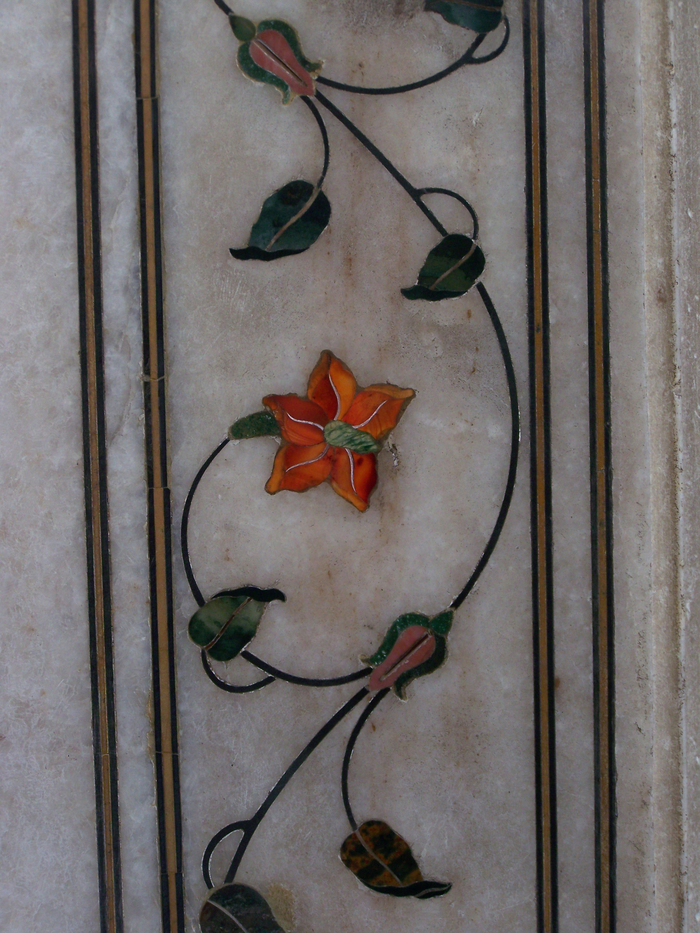 Floral motiv in pietra dura, walls of Shah Jahan's Diwan-i-Khas (hall of private audiences (1638), Red Fort, Delhi.